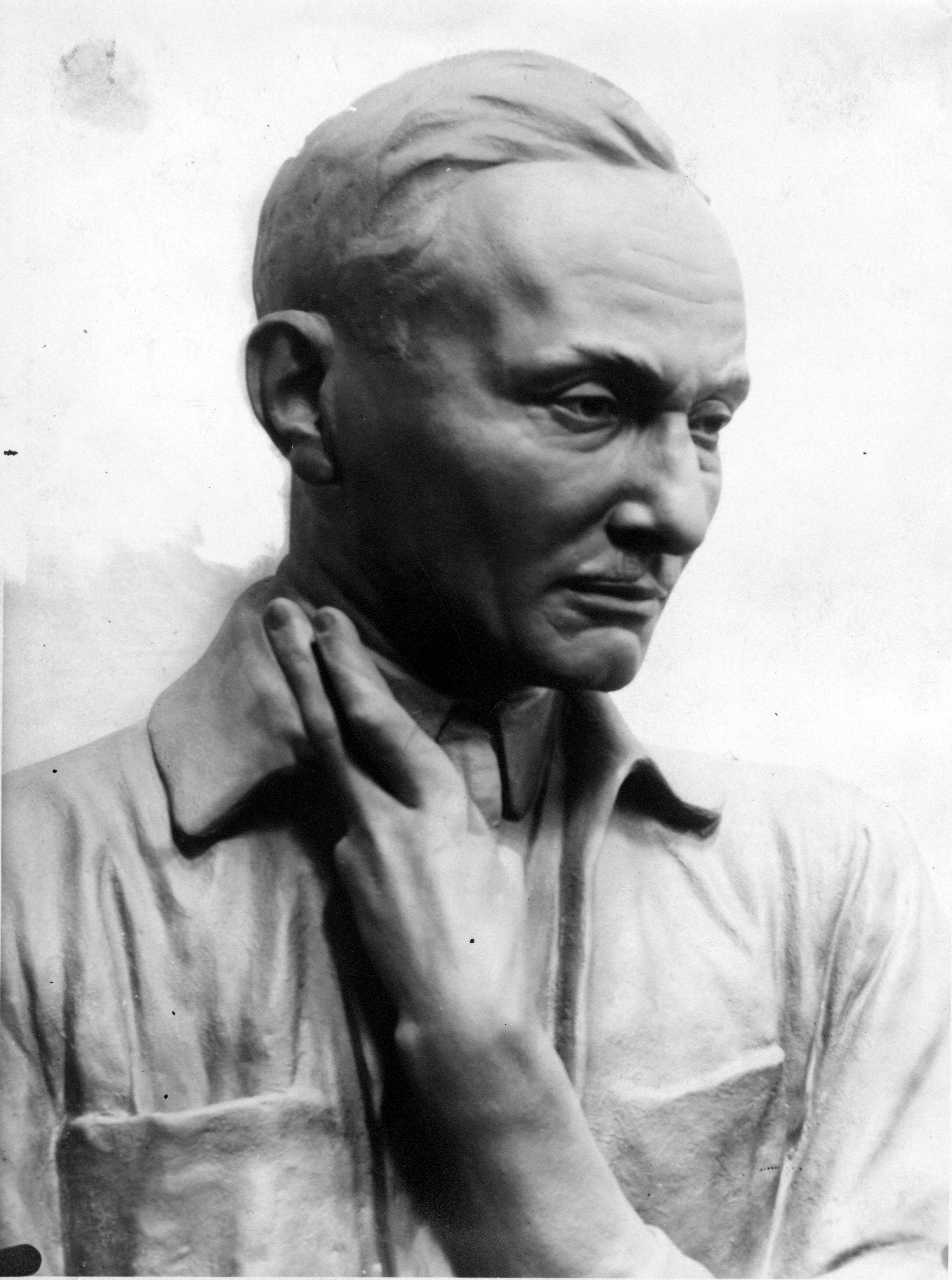 Sculpture of Guido Holzknecht by Joseph Josephu, created in 1932 and destroyed during the Second World War.